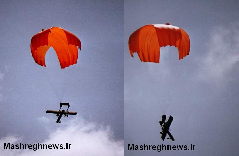 parachute recovery of an IRGC Mohajer-1 UAV during the Iran-Iraq war. The left picture clearly shows that this UAV is equipped with rocket pods for RPG-7 rockets.